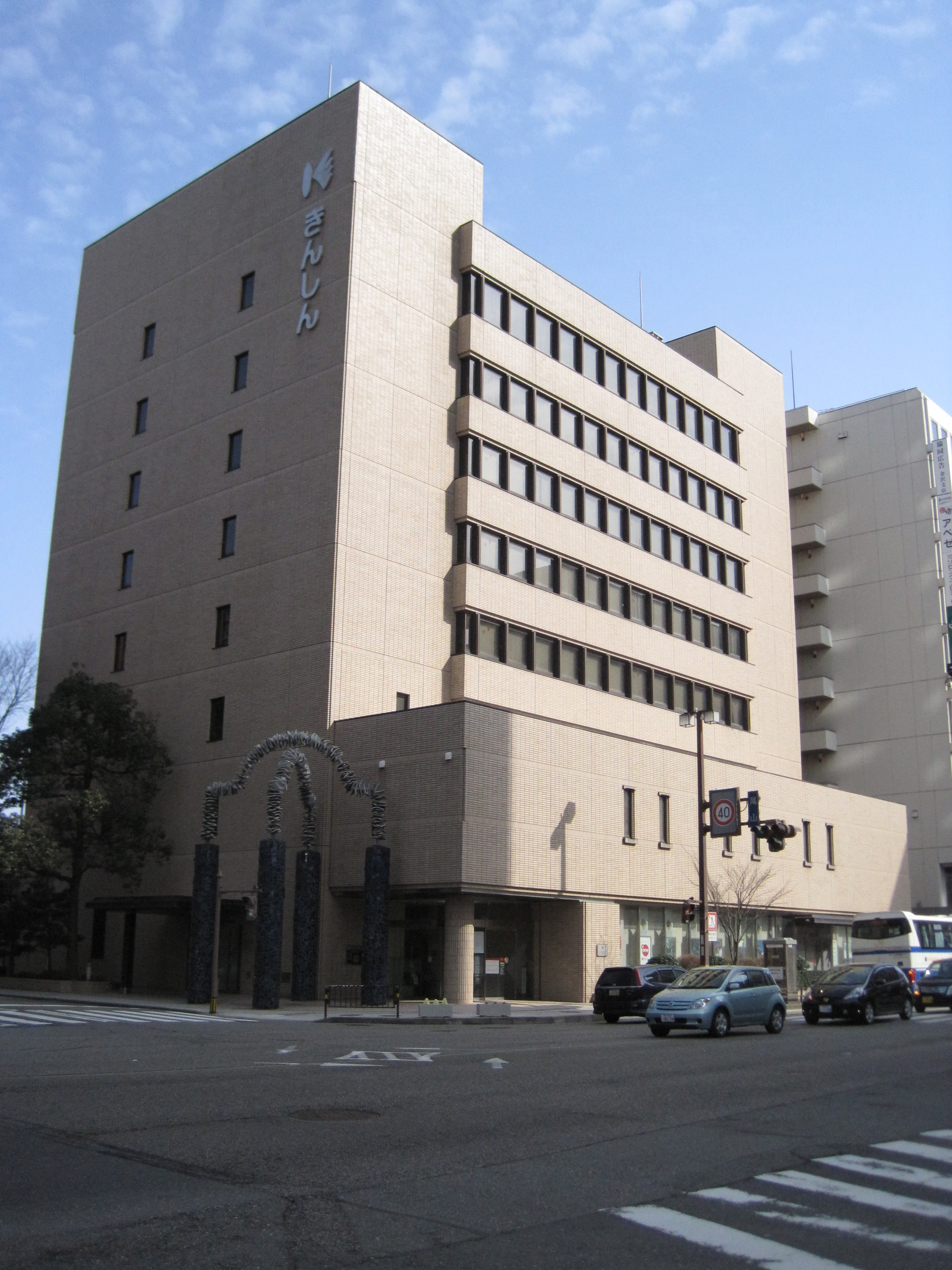 Haedquarter_of_Kanazawa_Shinkin_Bank(Kanazawa, Ishikawa, Japan)